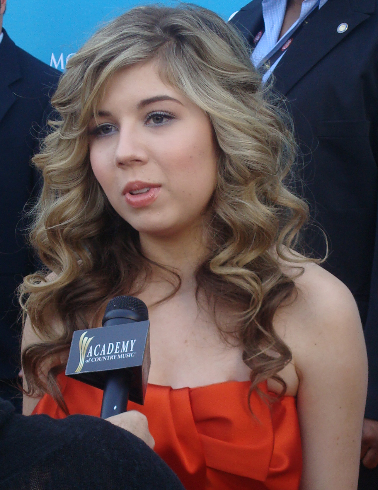 Jennette McCurdy at the 45th Annual Academy of Country Music Awards.